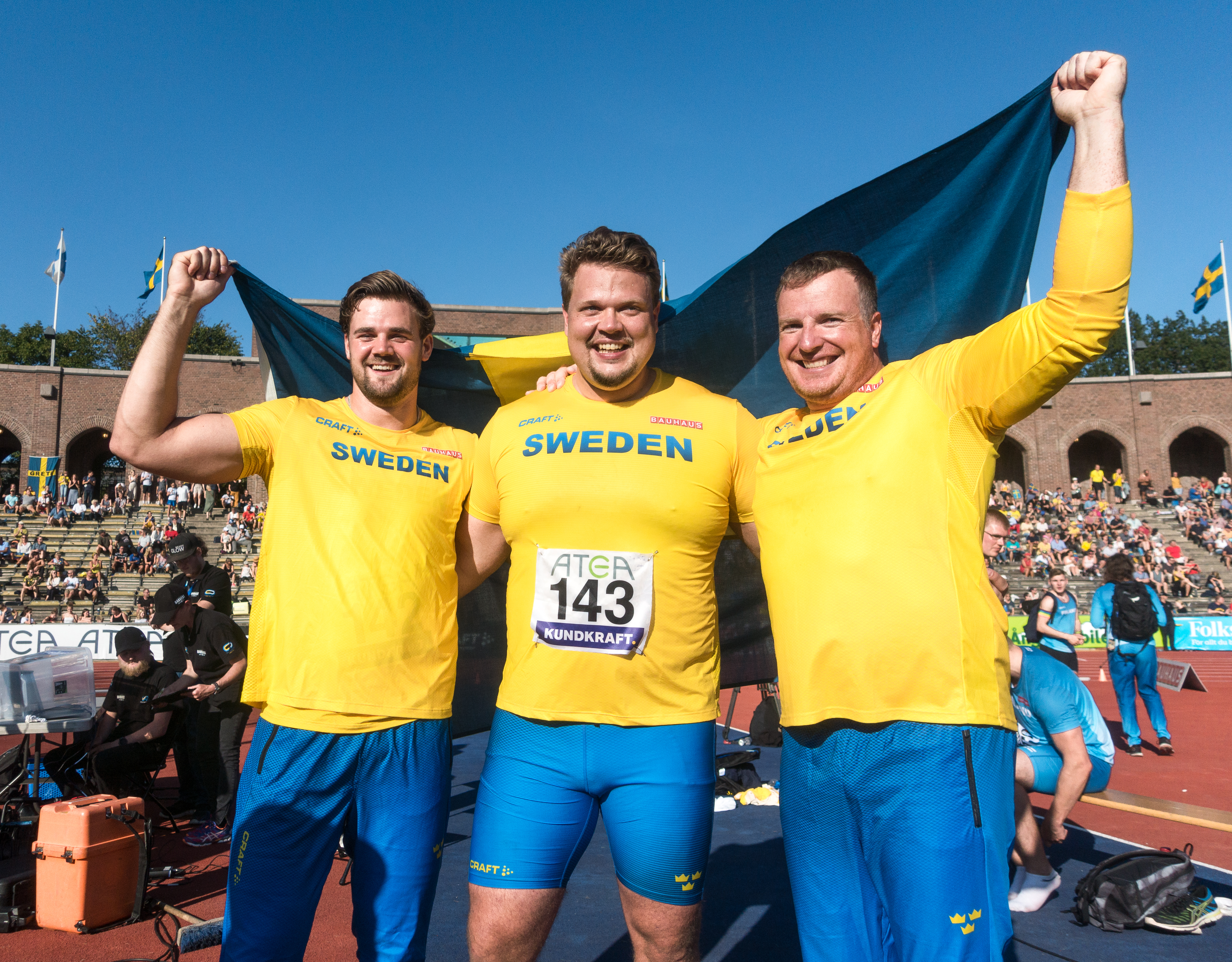 Simon Pettersson, Daniel Ståhl, Niklas Arrhenius during the Finland-Sweden athletics international 2019 at the Stockholm Stadium in August 2019.